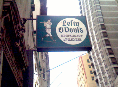 Lefty O'Doul's restaurant on Geary St. in San Francisco. Opened by former baseball star Lefty O'Doul.